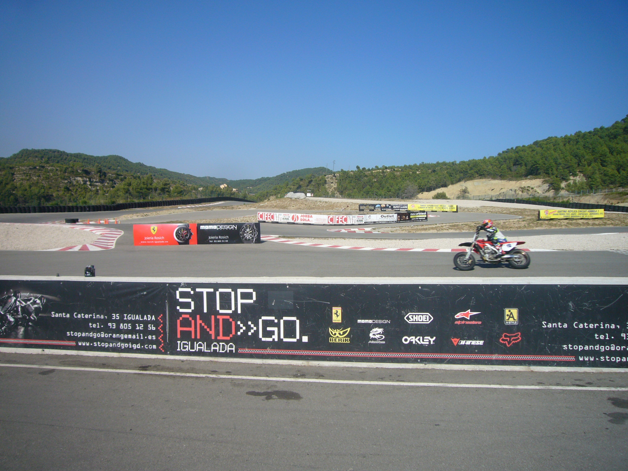 Parcmotor Castellolí. Karting and Supermotard circuit